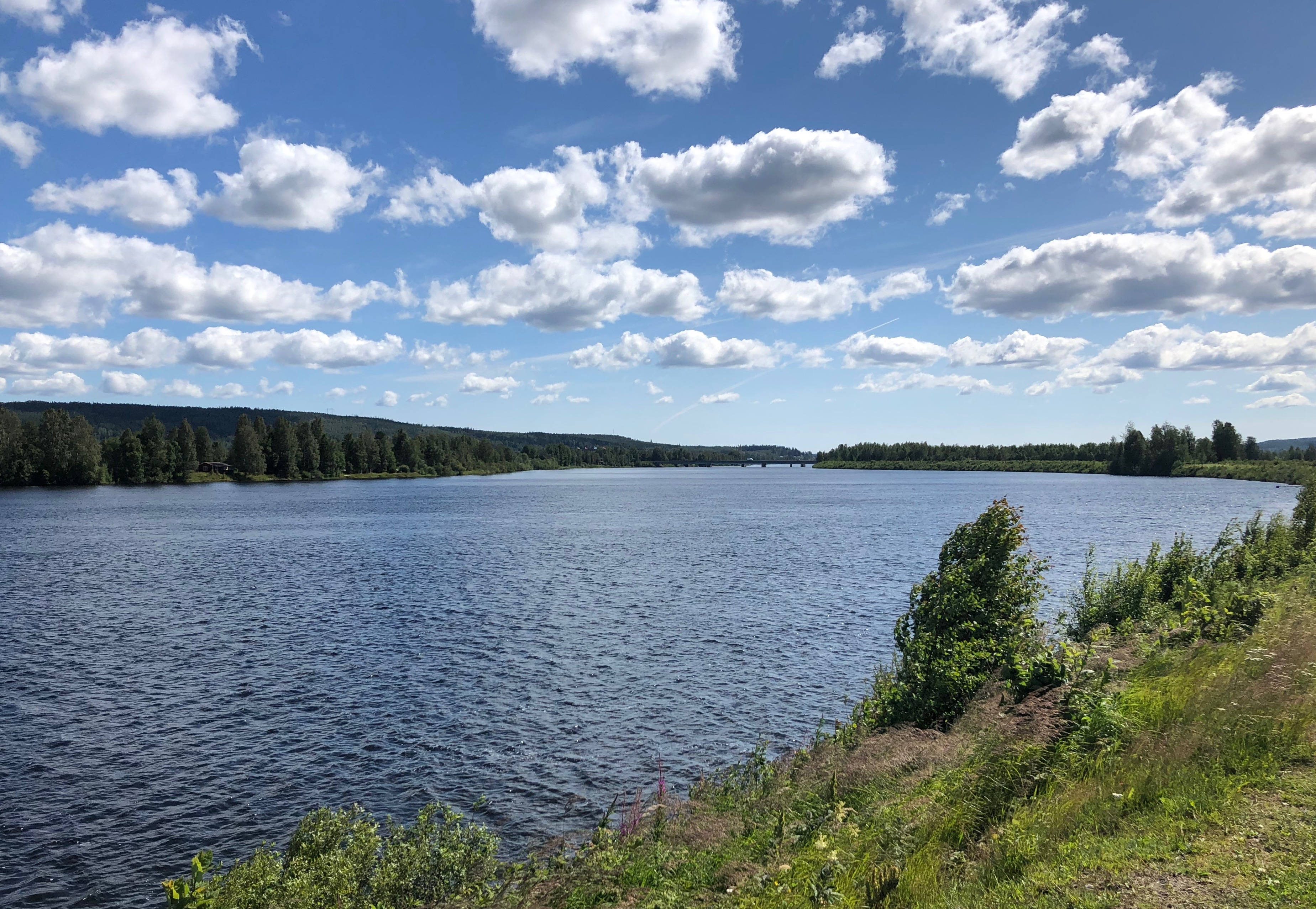 The bridge at Vännäsby, Sweden, at the lowest part of the Vindel River